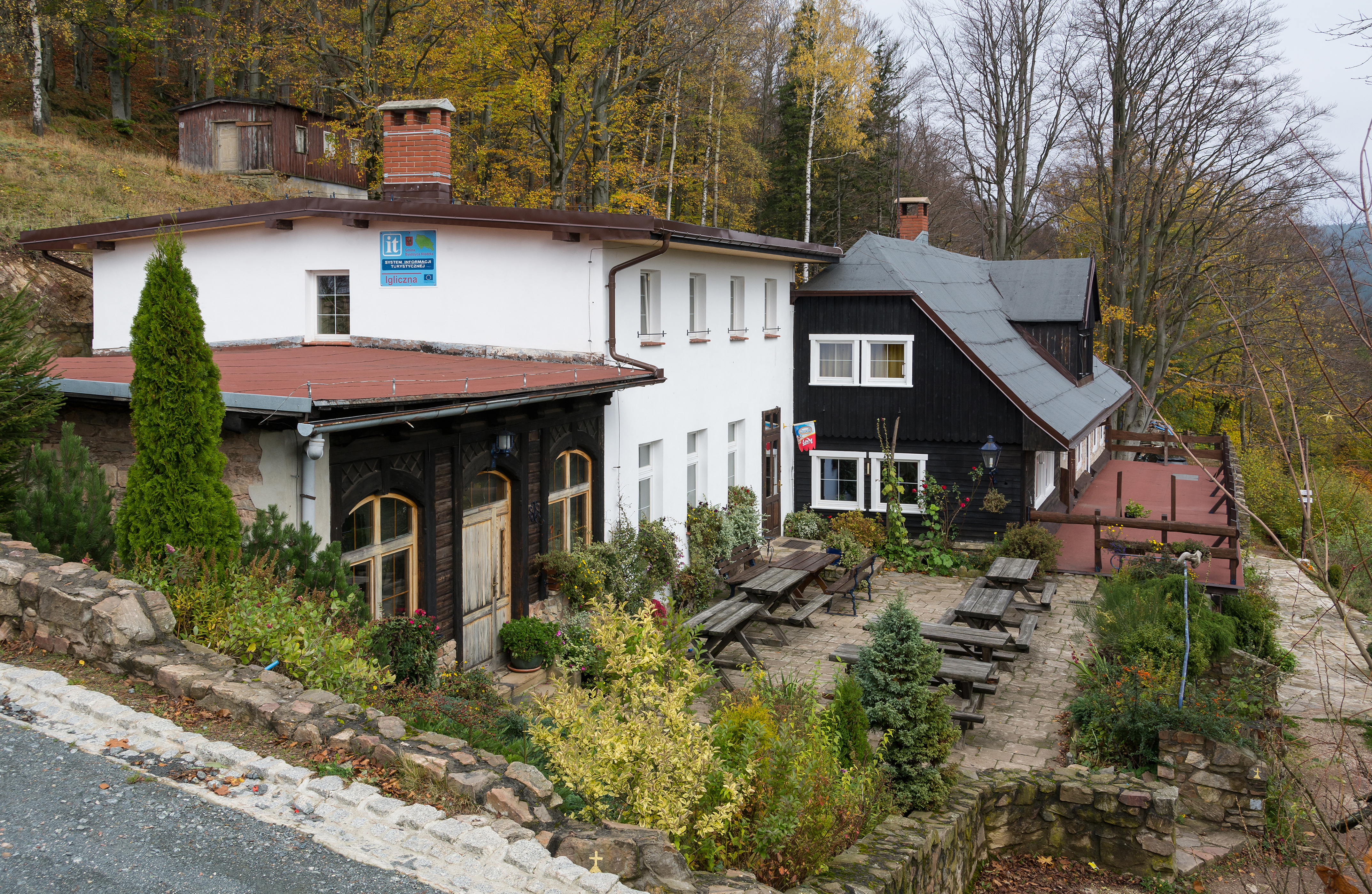 Na Iglicznej Hostel